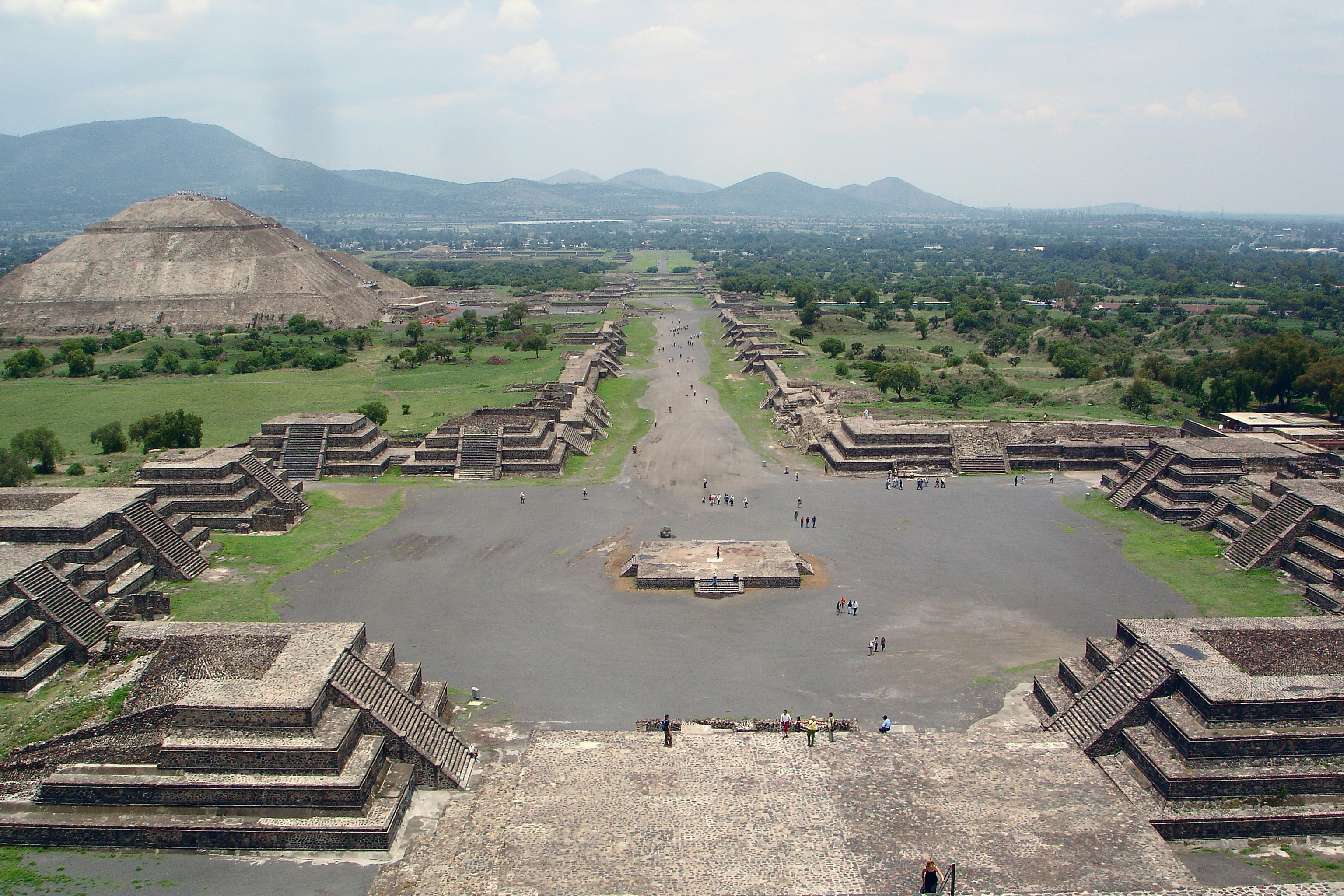 View of the Avenue of the Dead and the Pyramid of the Sun, from Pyramid of the Moon (Pyramide de la Luna)